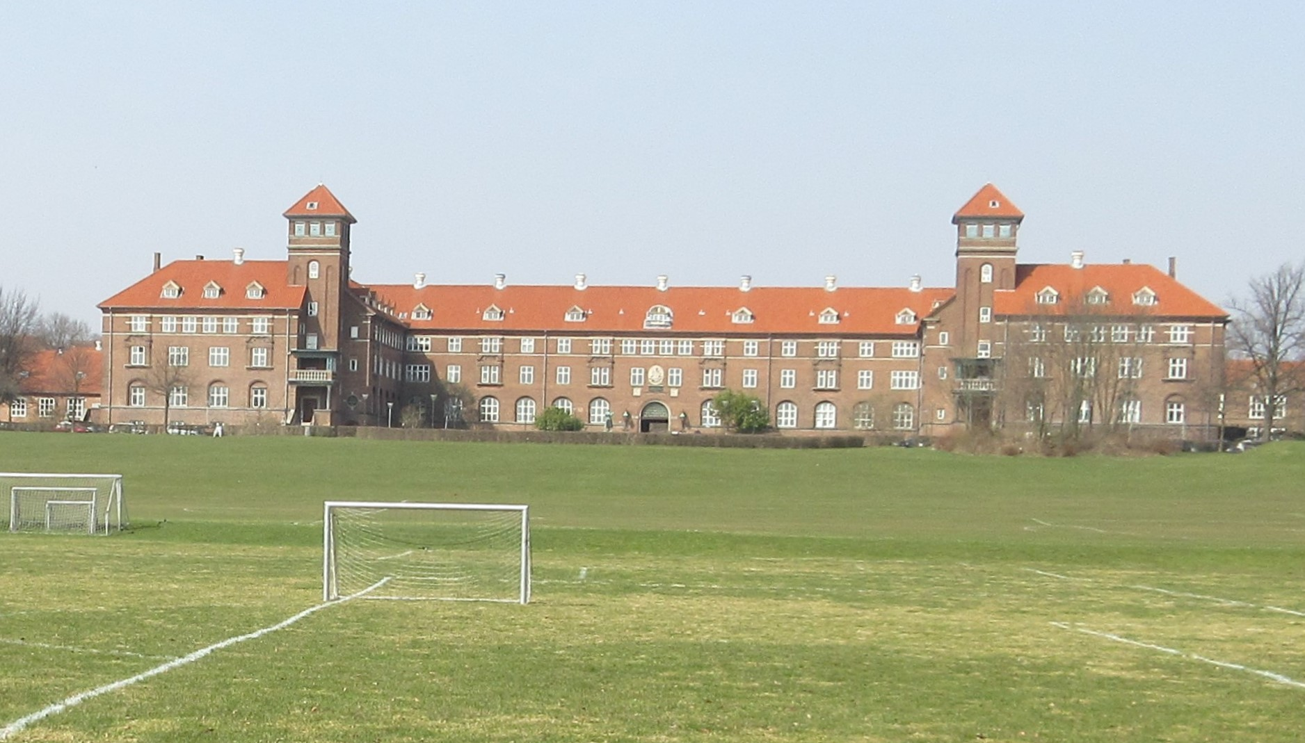 Bispebjerg Hospital in Copenhagen, Denmark